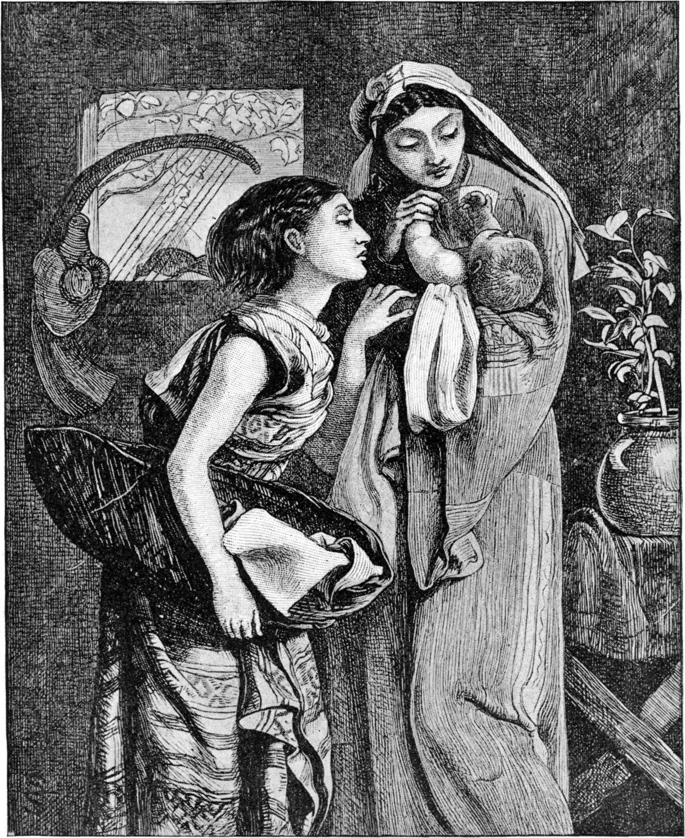 Jocheved, Miriam, and Moses. Caption: "This little baby is in his mother's arms. She is an Israelite. She loves her little boy very much, but she is afraid to keep him with her. A wicked king now rules over Egypt. He kills all the little boys of the Israelites. How will the baby's mother save him from being killed? She will put him in a little ark, or boat, and hide him by the river bank." Illustration from the 1897 Bible Pictures and What They Teach Us: Containing 400 Illustrations from the Old and New Testaments: With brief descriptions by Charles Foster